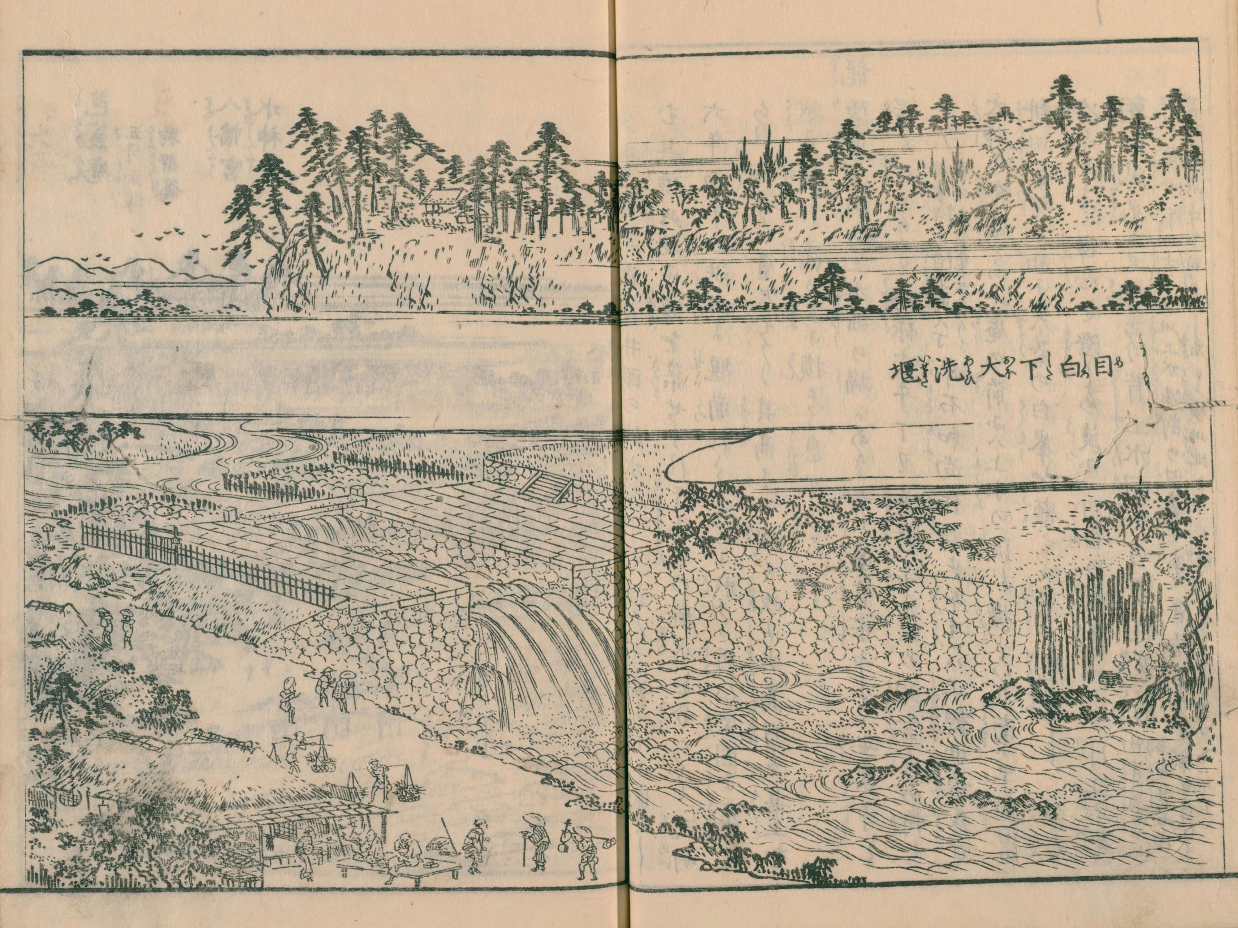 Dam on the Kanda River at Mejiro-shita (Sekiguchi) in Edo Meisho Zue vol. 4 (book 12)